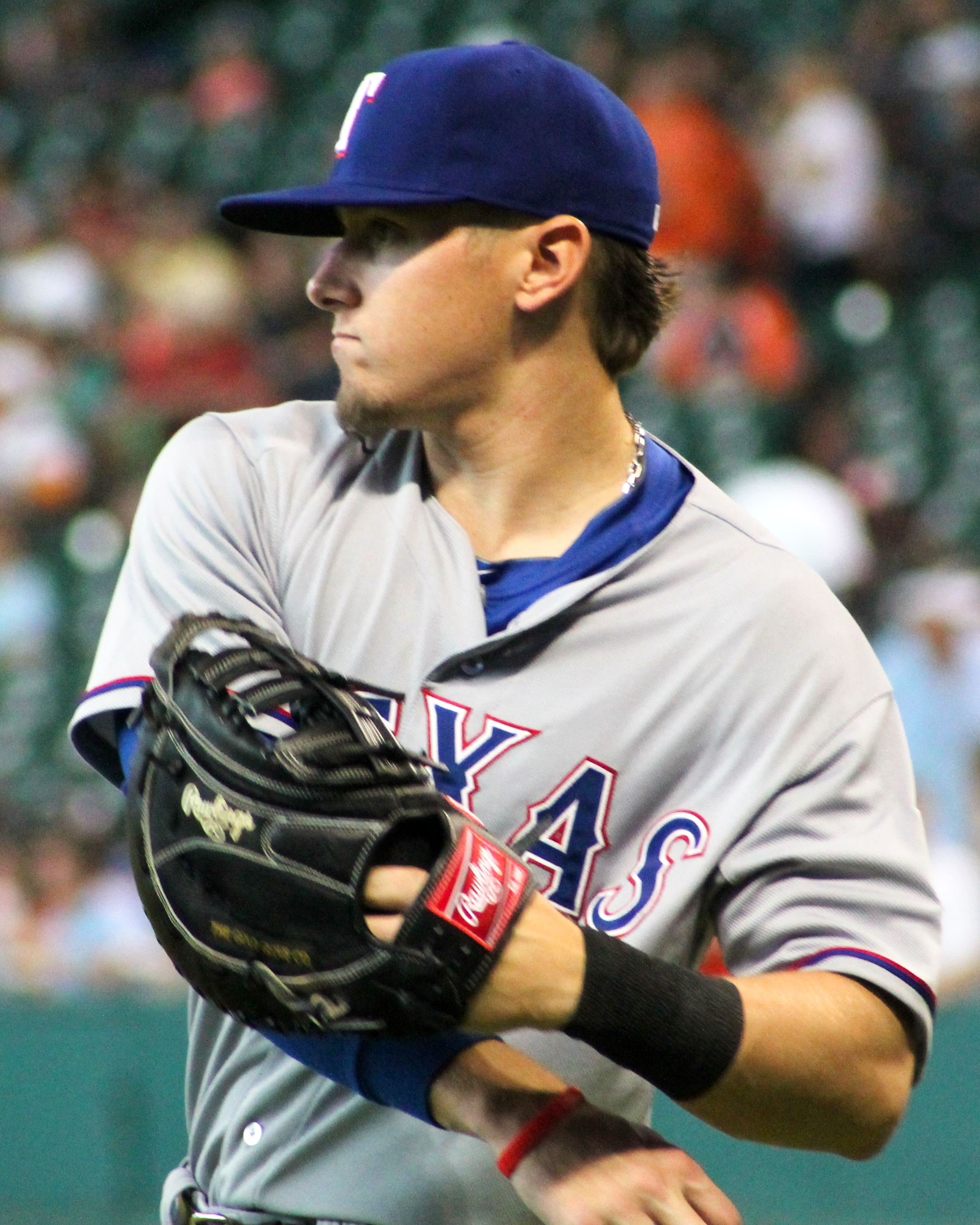 Professional baseball player Ryan Rua at Minute Maid Park in August 2014.